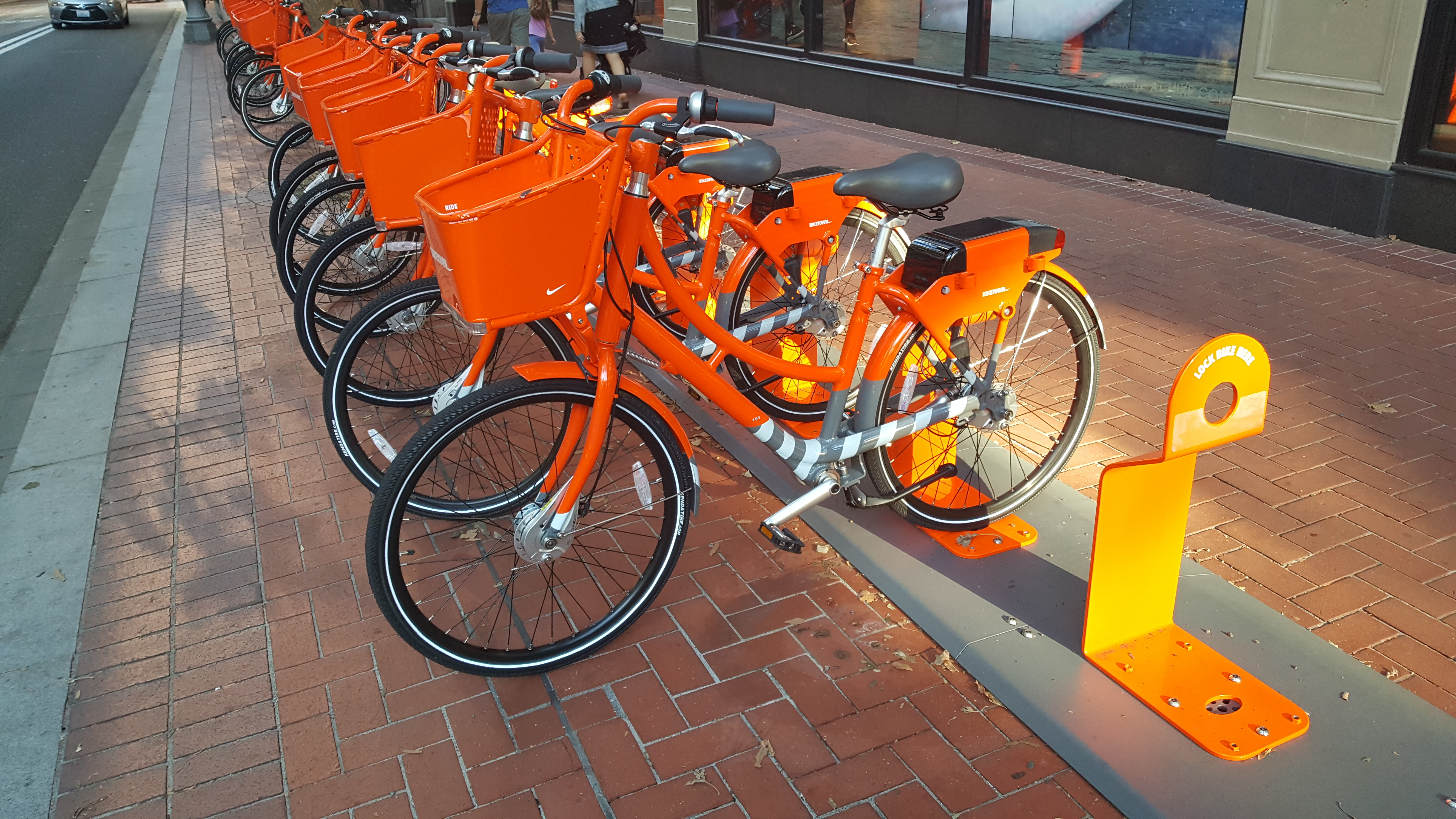 Biketown, next to the Nike Store in Downtown Portland, Oregon, 2016